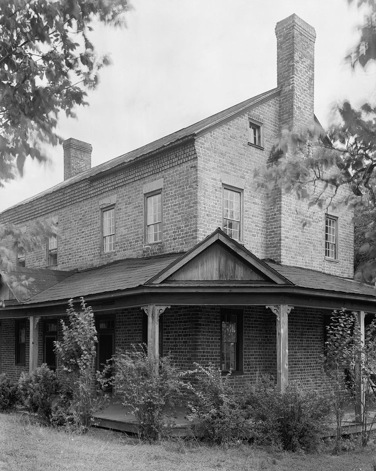 Quaker Meadows, Morganton vic., Burke County, North Carolina cropped This image is available from the United States Library of Congress's Prints and Photographs division under the digital ID csas,02257.This tag does not indicate the copyright status of the attached work. A normal copyright tag is still required. See Commons:Licensing for more information. Rights Advisory: No known restrictions on publication. This work is in the public domain in the United States because it is a work prepared by an officer or employee of the United States Government as part of that person’s official duties under the terms of Title 17, Chapter 1, Section 105 of the US Code. Note: This only applies to original works of the Federal Government and not to the work of any individual U.S. state, territory, commonwealth, county, municipality, or any other subdivision. This template also does not apply to postage stamp designs published by the United States Postal Service since 1978. (See § 313.6(C)(1) of Compendium of U.S. Copyright Office Practices). It also does not apply to certain US coins; see The US Mint Terms of Use. This file has been identified as being free of known restrictions under copyright law, including all related and neighboring rights.